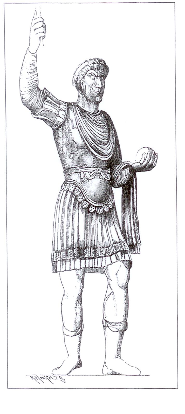 Shows a sketch of a statue of east roman emperor Heraclius 1.